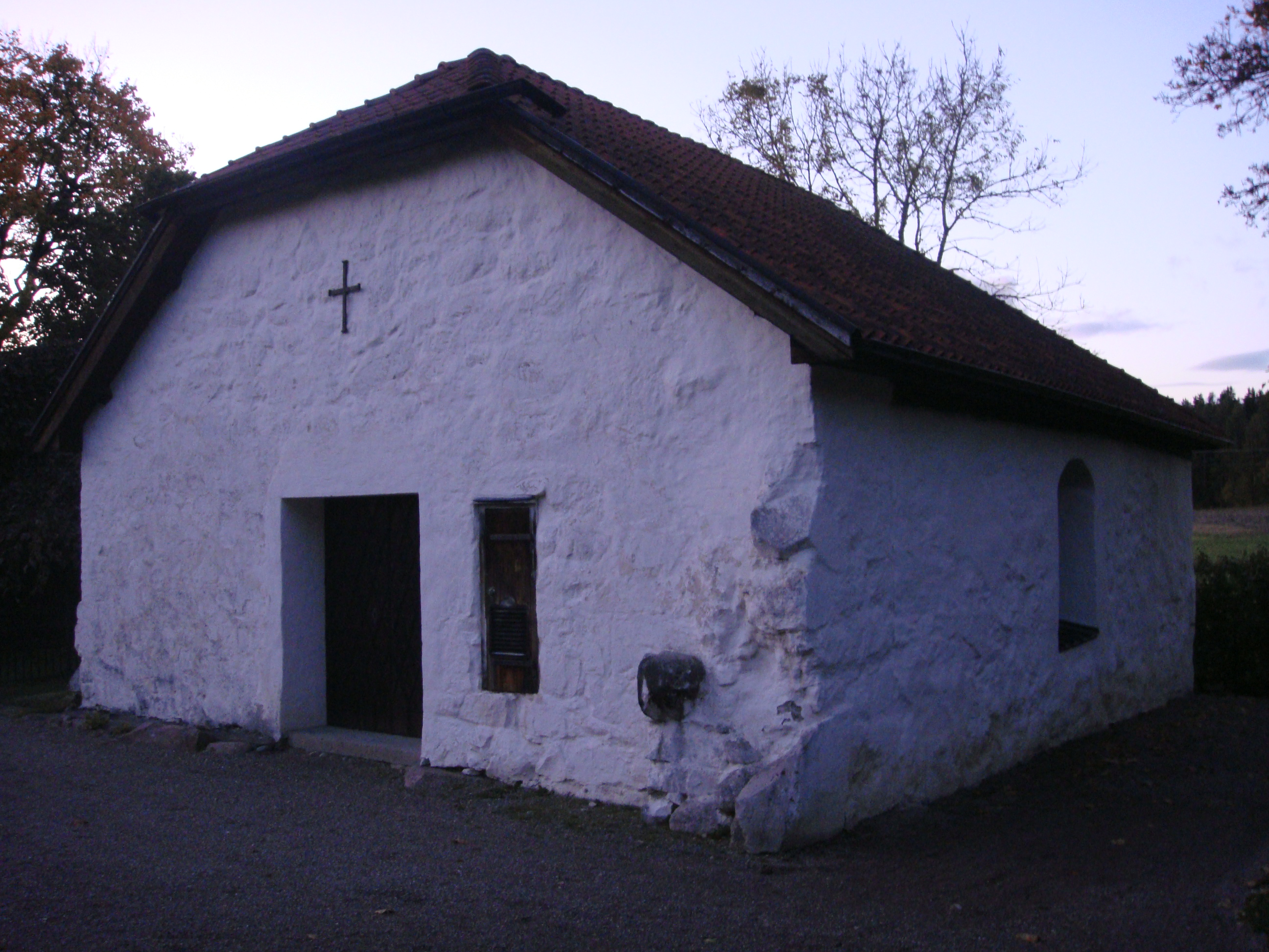 The old church in Vånga, Östergötland, Sweden.